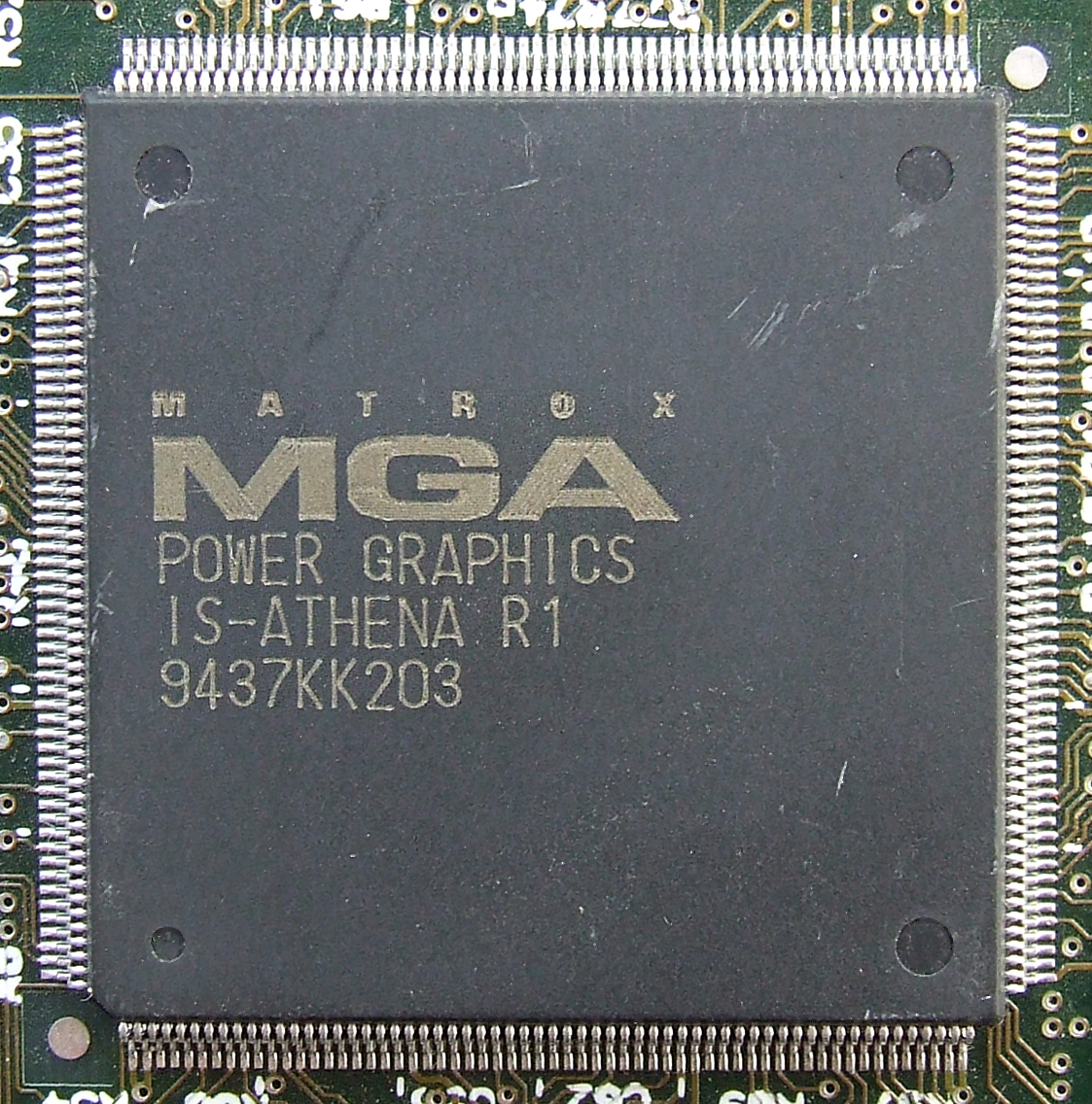 IS-ATHENA graphics processing unit of a Matrox Impression Plus PCI (2+2 MB) video card